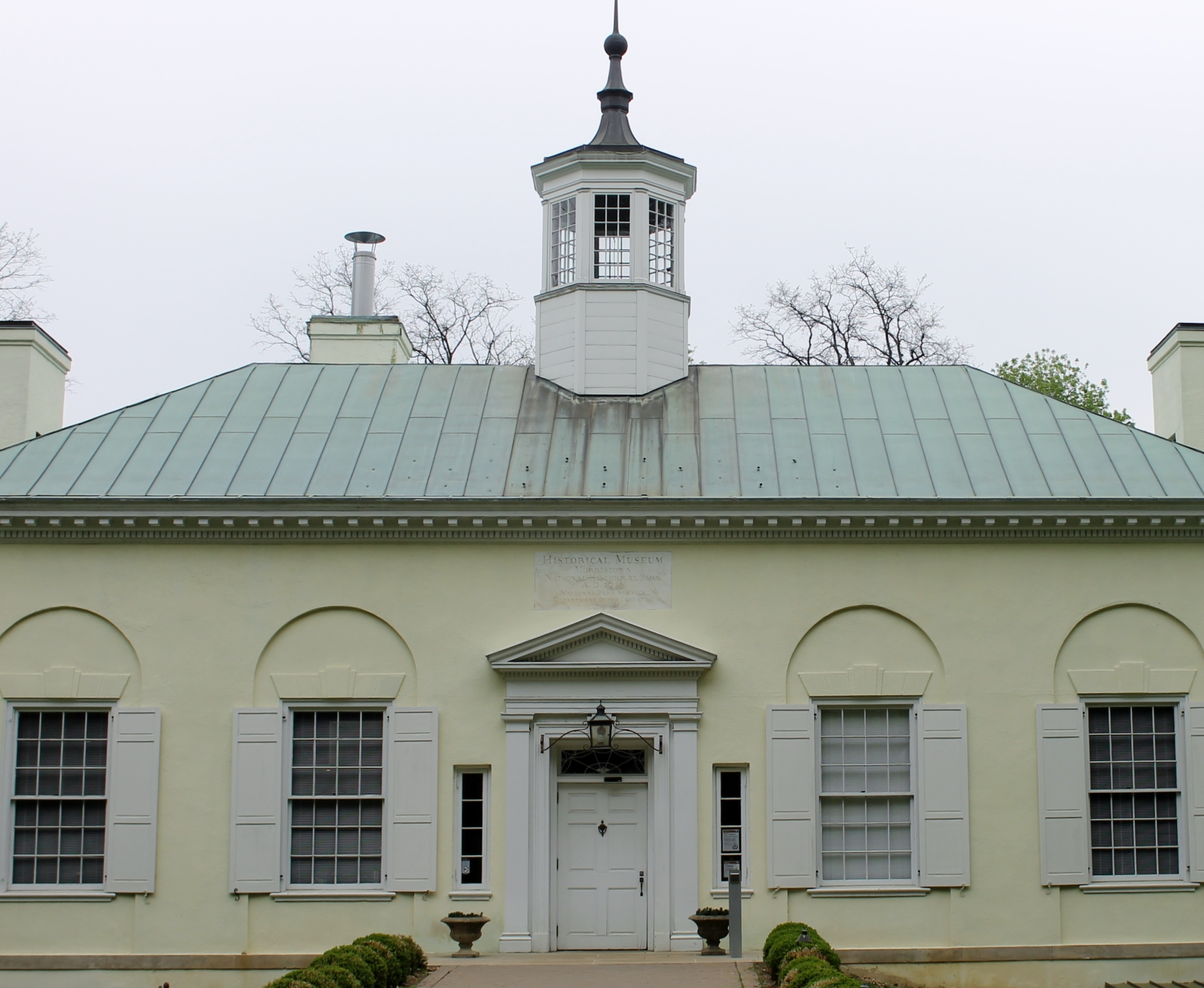 George Washington's winter quarters in Morristown, NJ, is a restored museum.